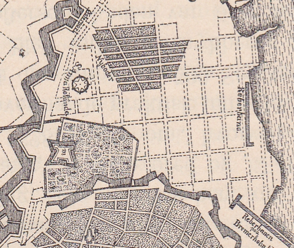 Revised plan for the street layout in Ny-Kjøbenhavn in Copenhagen, Denmark. The street lay-out ended up somewhat different from the plan.